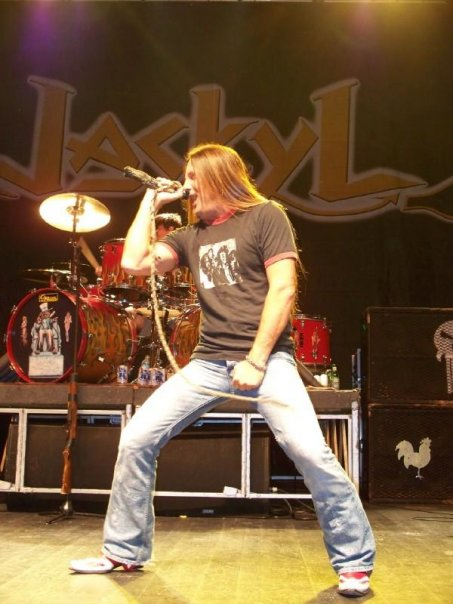 Jesse James Dupree on stage with Jackyl